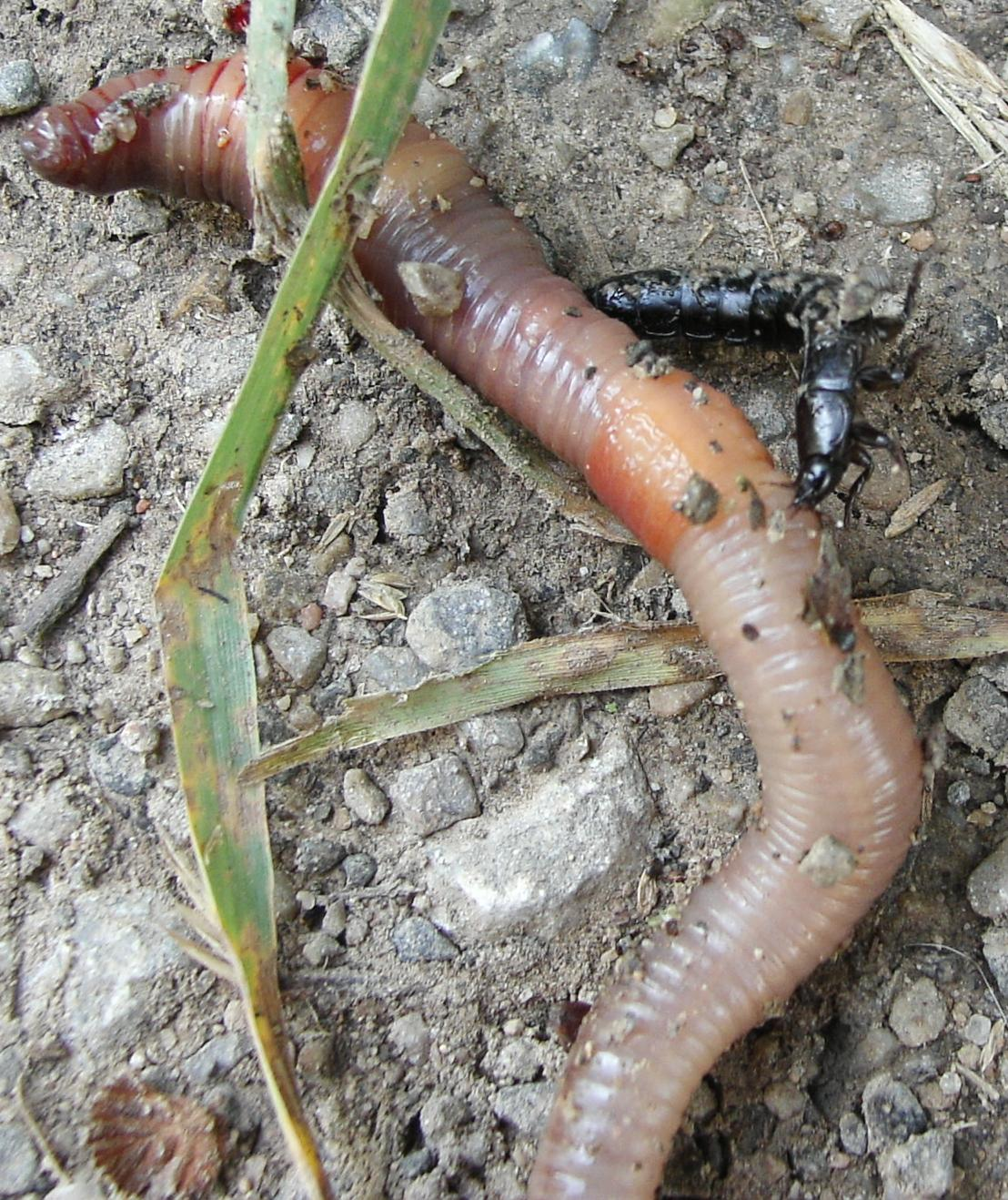 Staphylinus olens fighting an earthworm (Lumbricus sp.) near Nettersheim, Germany. This fight went on for some time, I don't remember who 'won'.